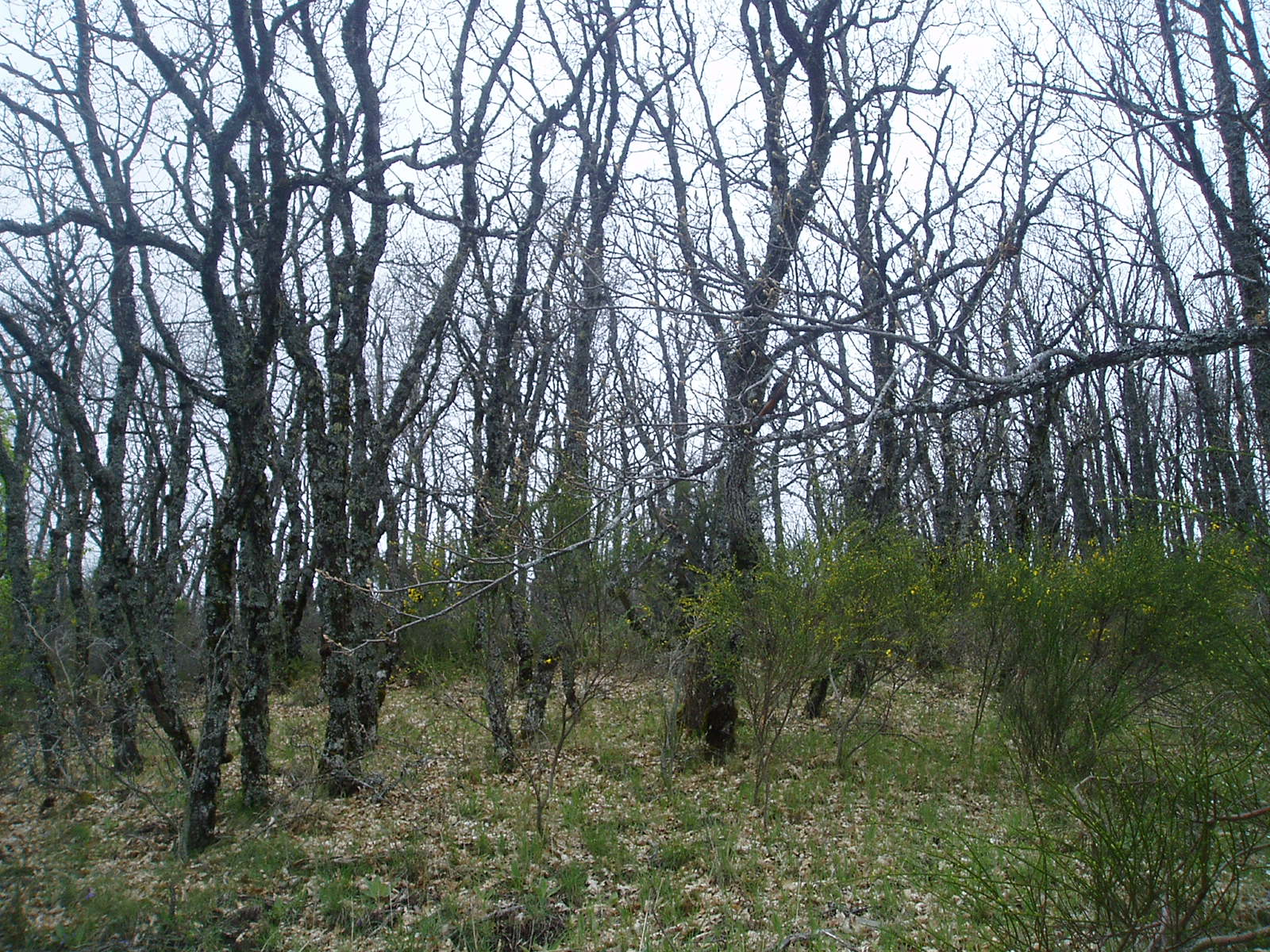 View of an oakwood in the Hayedo de Tejera Negra.